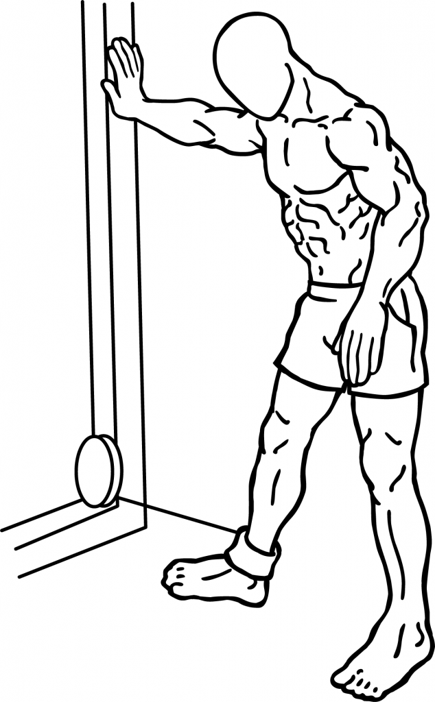 an exercise of inner thigh